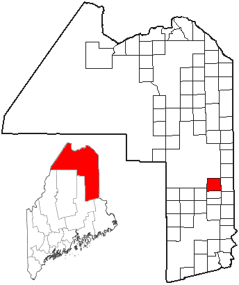 Adapted from U.S. Census Bureau maps (American FactFinder) and Wikipedia's ME county maps by Bumm13.